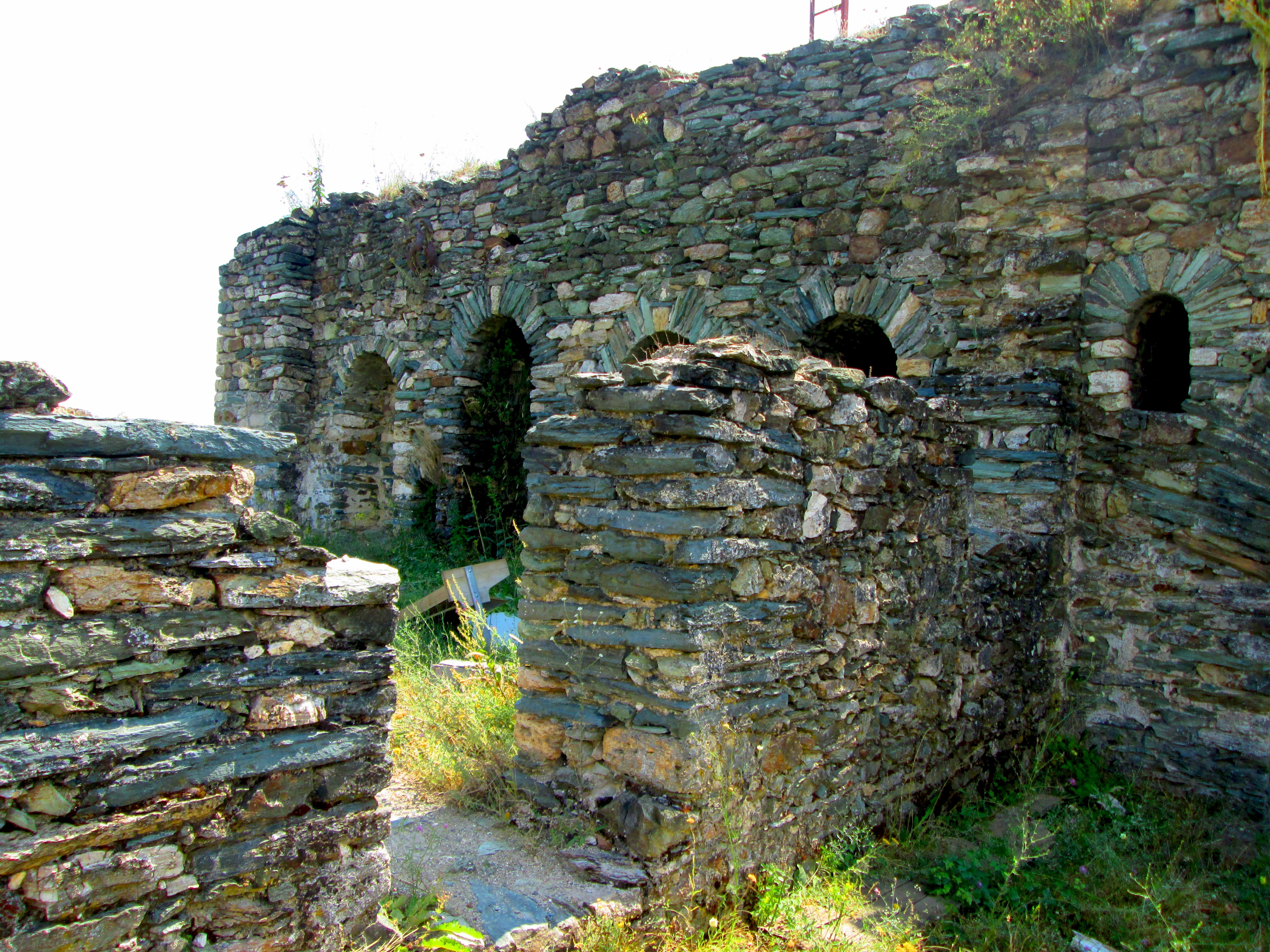 Tetovo Kale or Isar Fortress it is archaeological site on the top of Baltepe above Tetovo 2 km so like a triangle with dimensions of 180 x 130 m and an area of ​​about 1 ha, the whole route covered by the foundations of late Antique defense turret